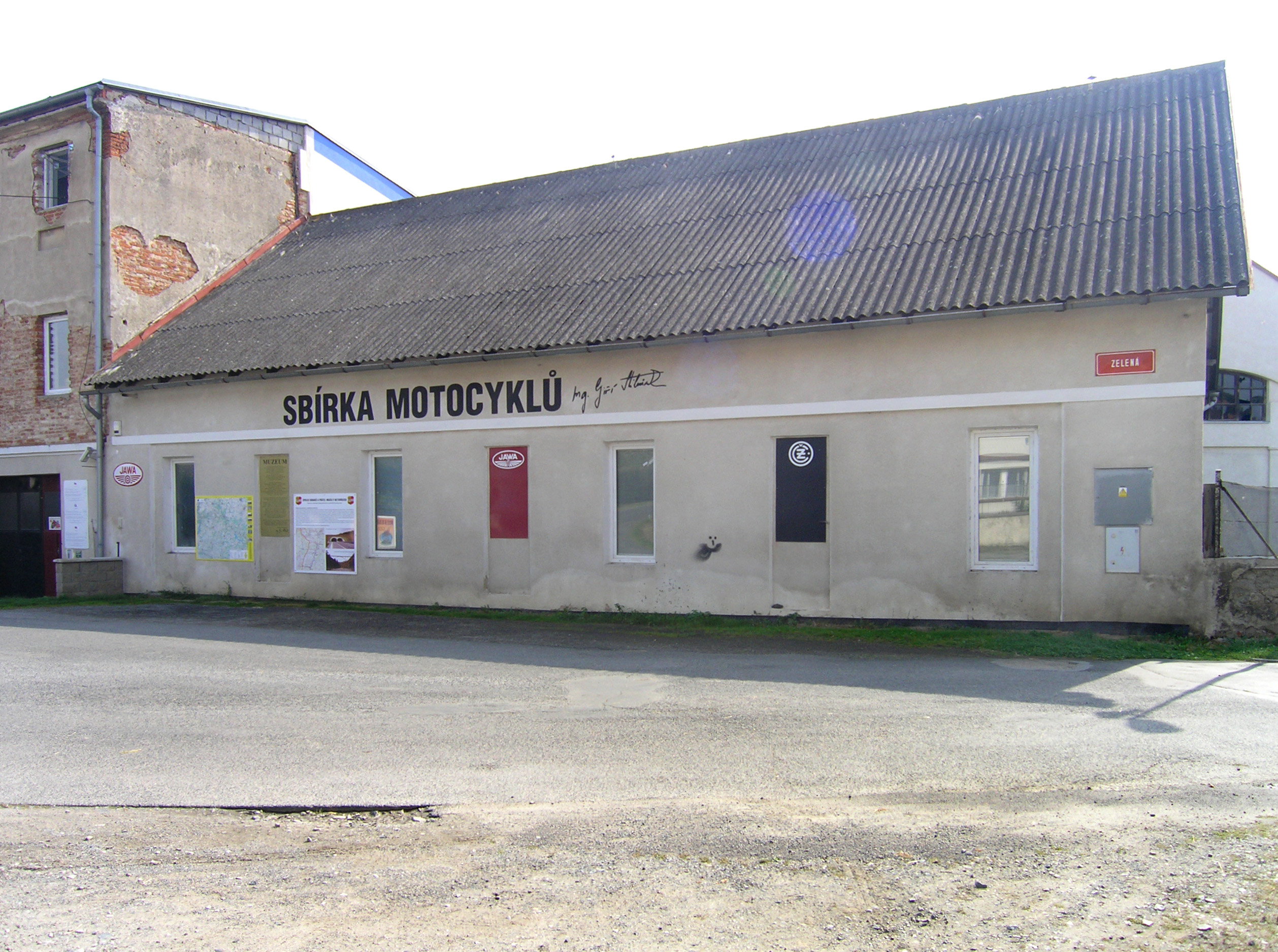 Motorcycle museum in Netvořice, Czech Republic